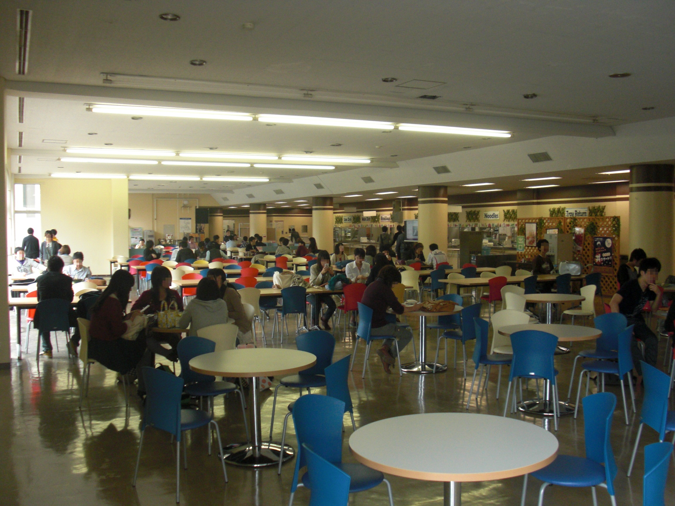 This is a cafeteria for students, which is in Area 1, University of Tsukuba.